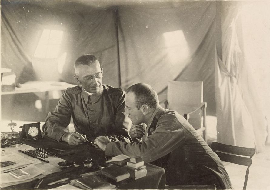 Von Kress and Baron Lager, Chief Austrian Commander, 1916.